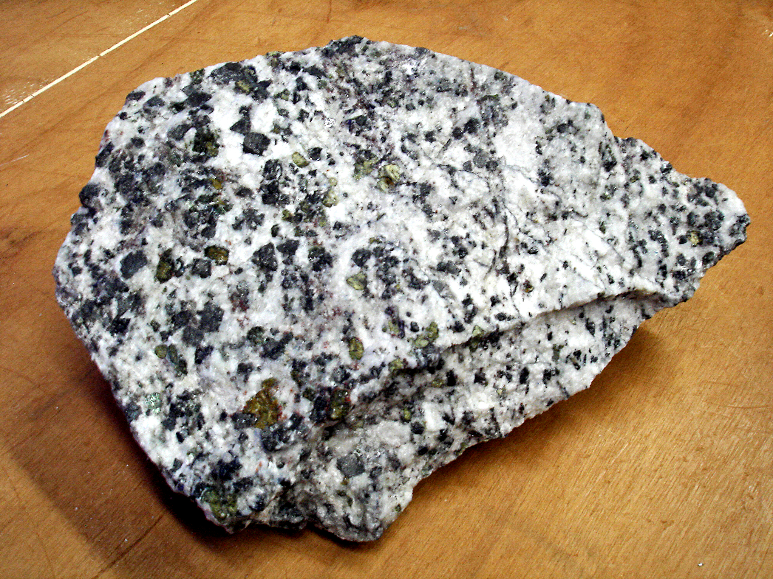 Carbonatite from Jacupiranga Estado de São Paulo, Brazil. The specimen is 20 cm X 14 cm. Mineralogical composition: the black minerals are magnetite, the white are calcite and the green ones are olivine